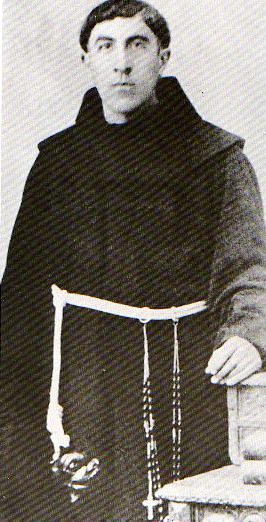 Pic of Padre Lino Maupas, made before 1924